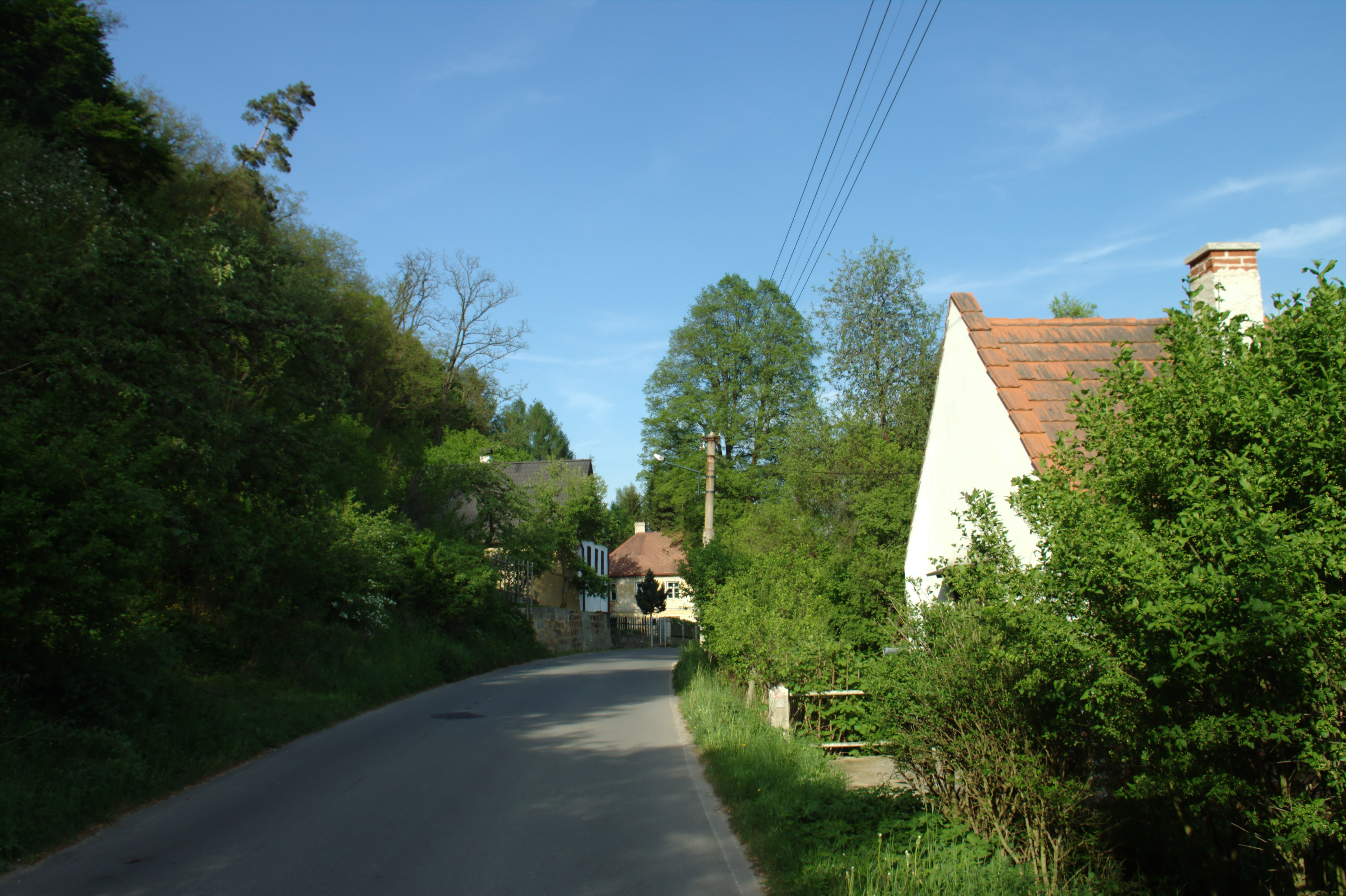 The village of Vojtěchov (part of the town of Mšeno), Central Bohemian Region, CZ Project: Fotíme Česko